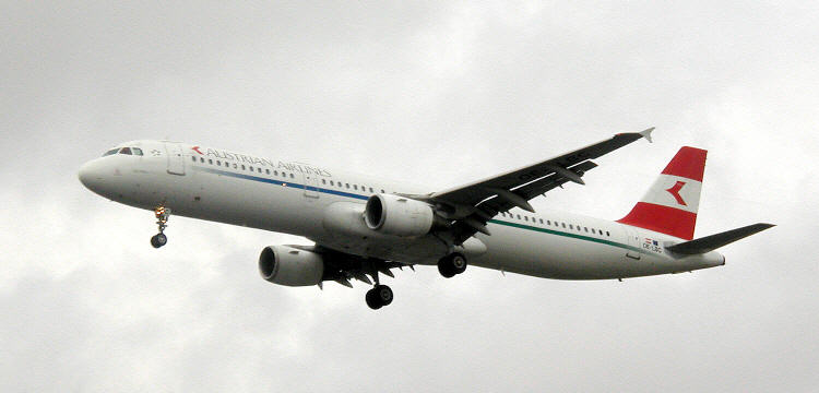 Austrian Airlines Airbus A321-100 (OE-LBC) on the approach to London (Heathrow) Airport (UK).